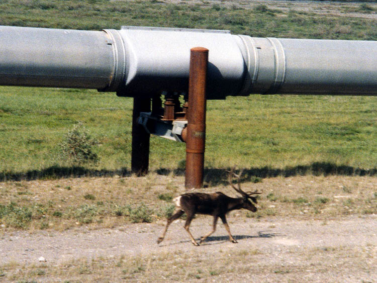 Photo of a caribou walking alongside the Trans-Alaska Pipeline System.